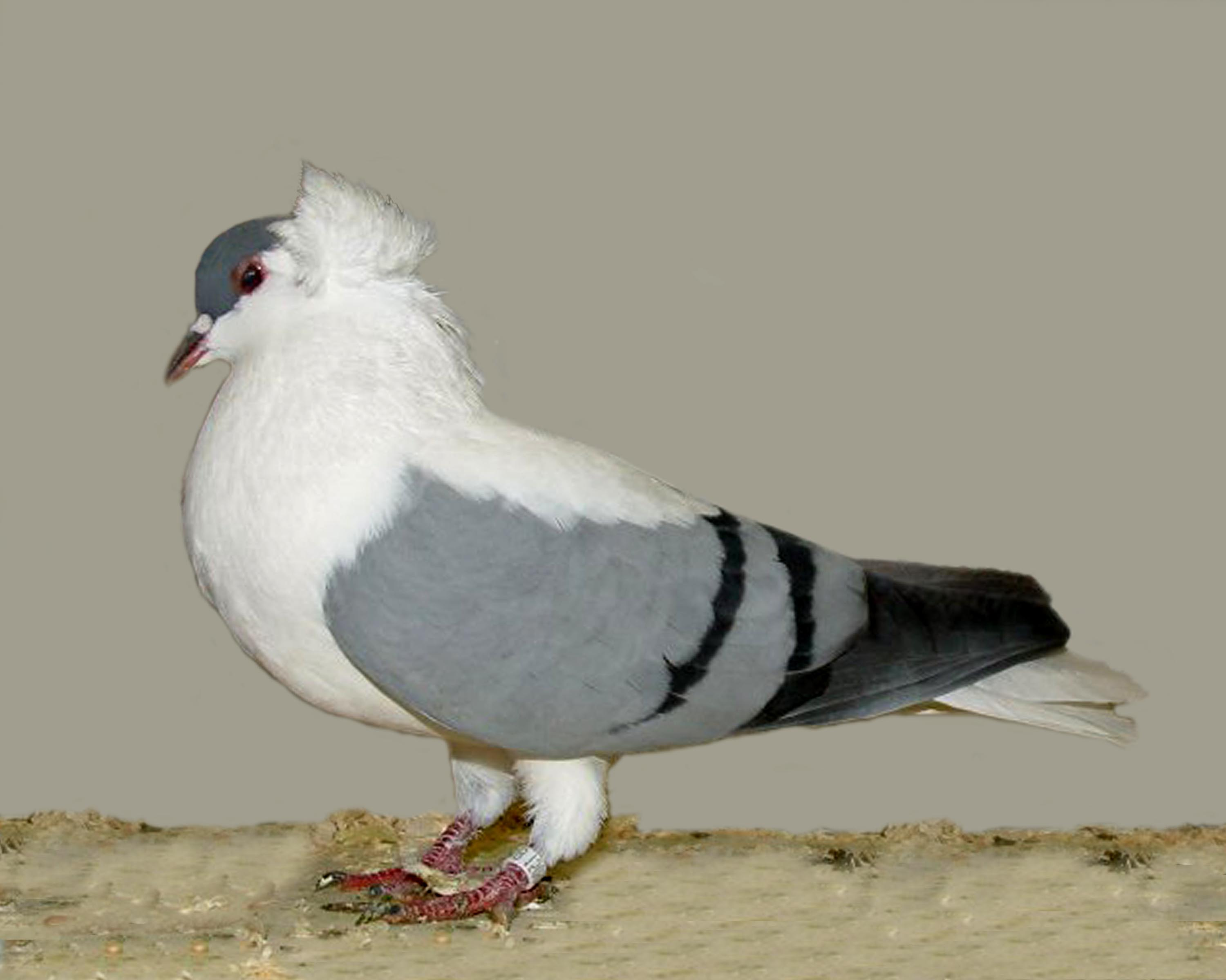 Thuringian Swallow (Blue Bar)